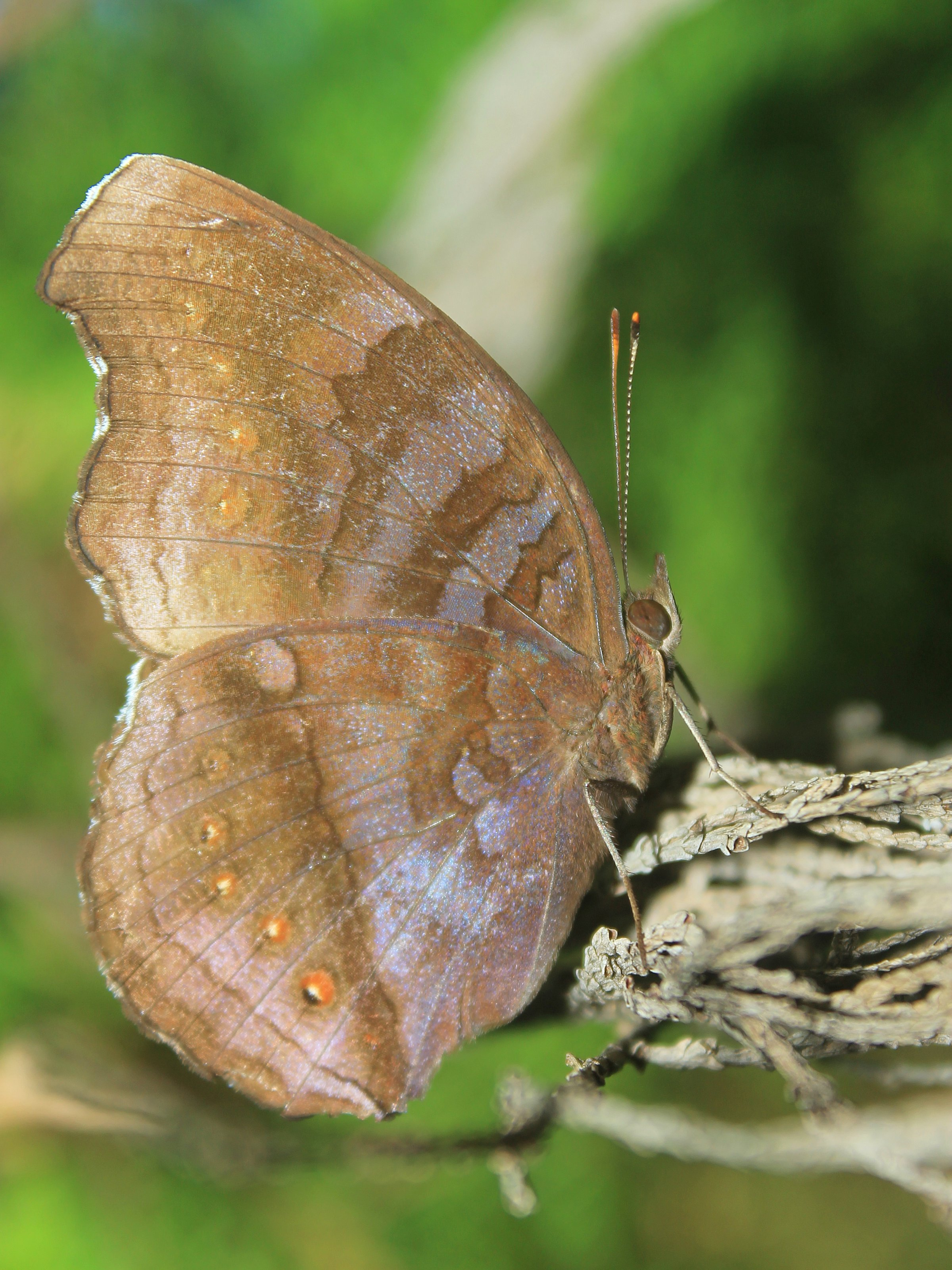 Junonia hedonia at Manado, North Sulawesi